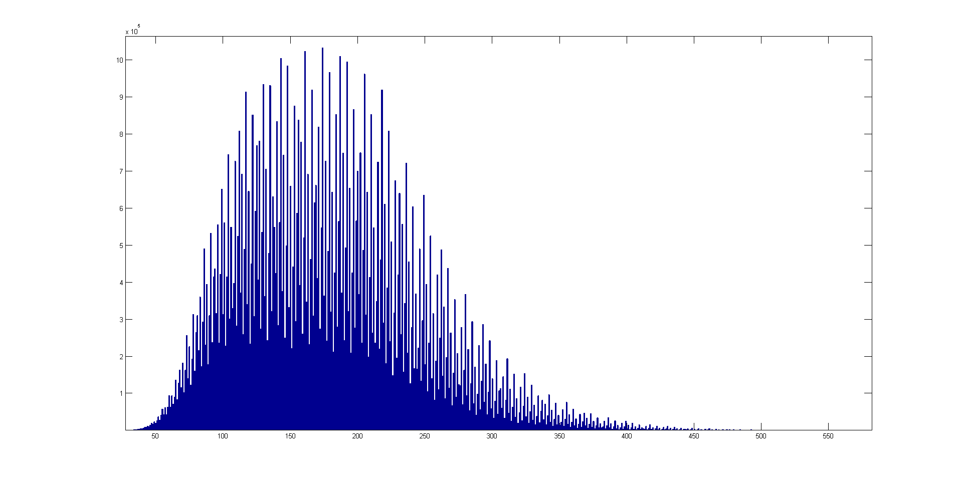 This statistic is for the numbers 1 to 100 million, showing the total stopping time of the Collatz sequence on the x-axis against the number of occurrences on the y-axis.